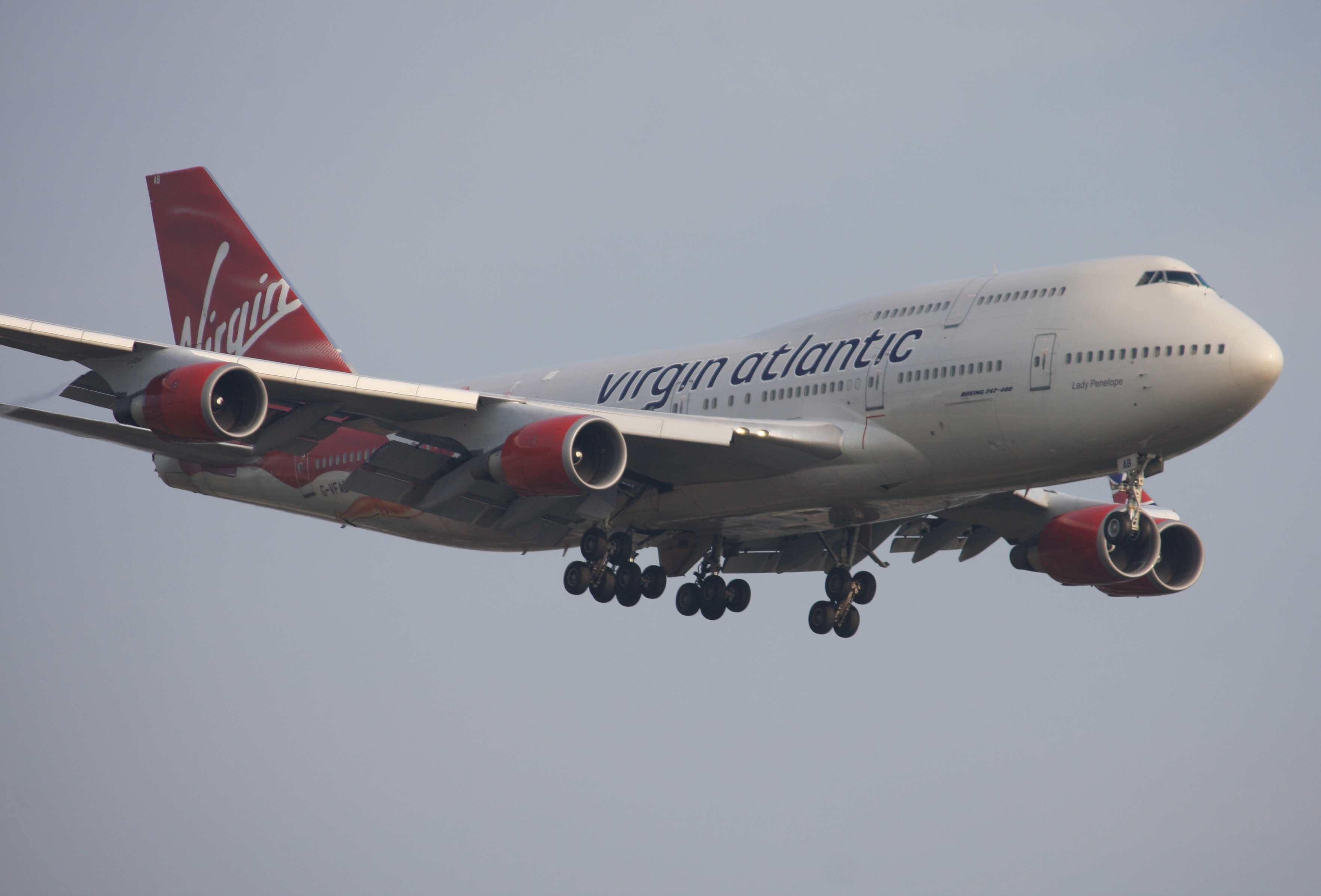 London - Heathrow (LHR / EGLL) UK - England, July 22, 2013.